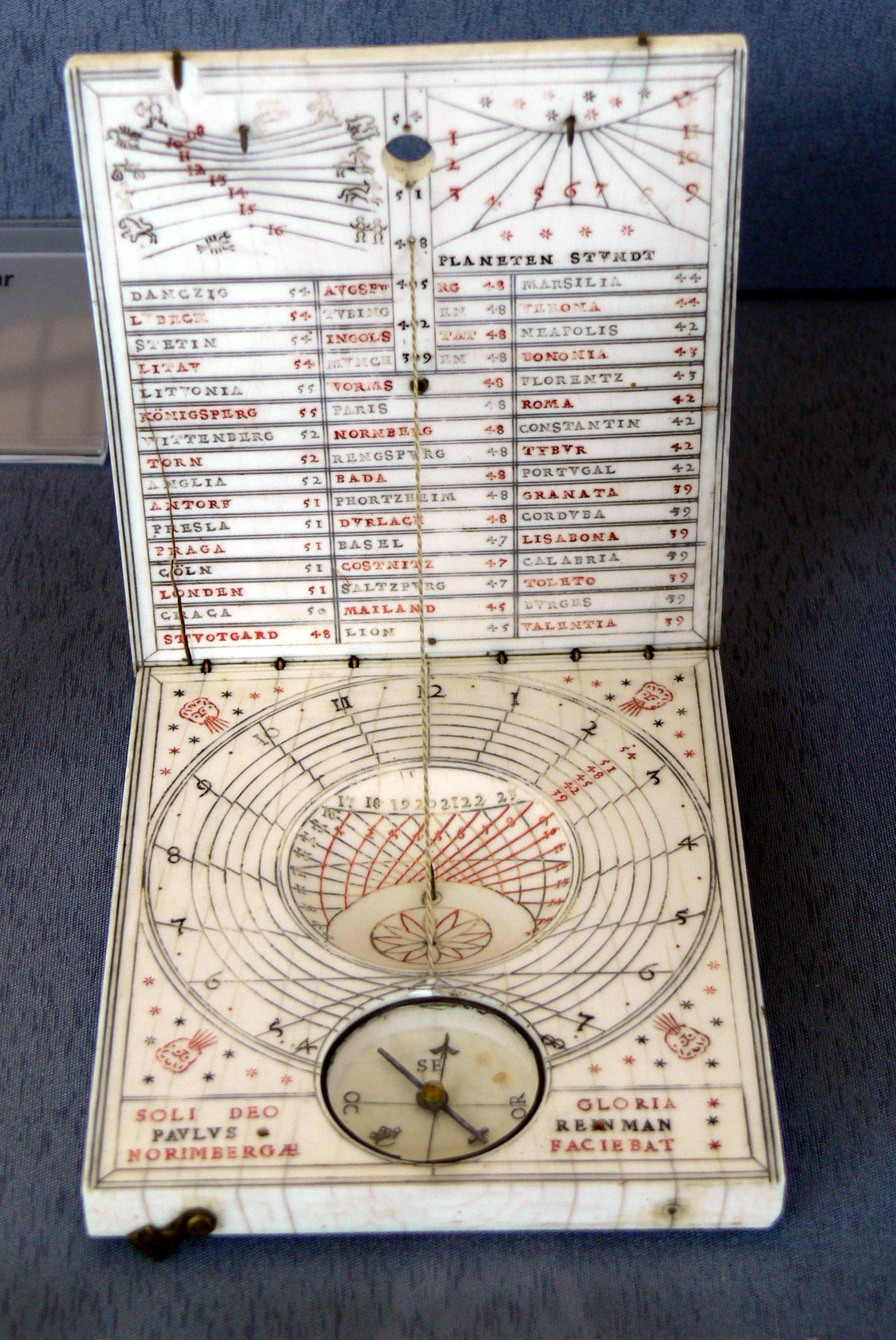 German National Museum ( Nuremberg / Germany ). Sundial, made by Paul Reinmann in Nuremberg ( 1557 ).